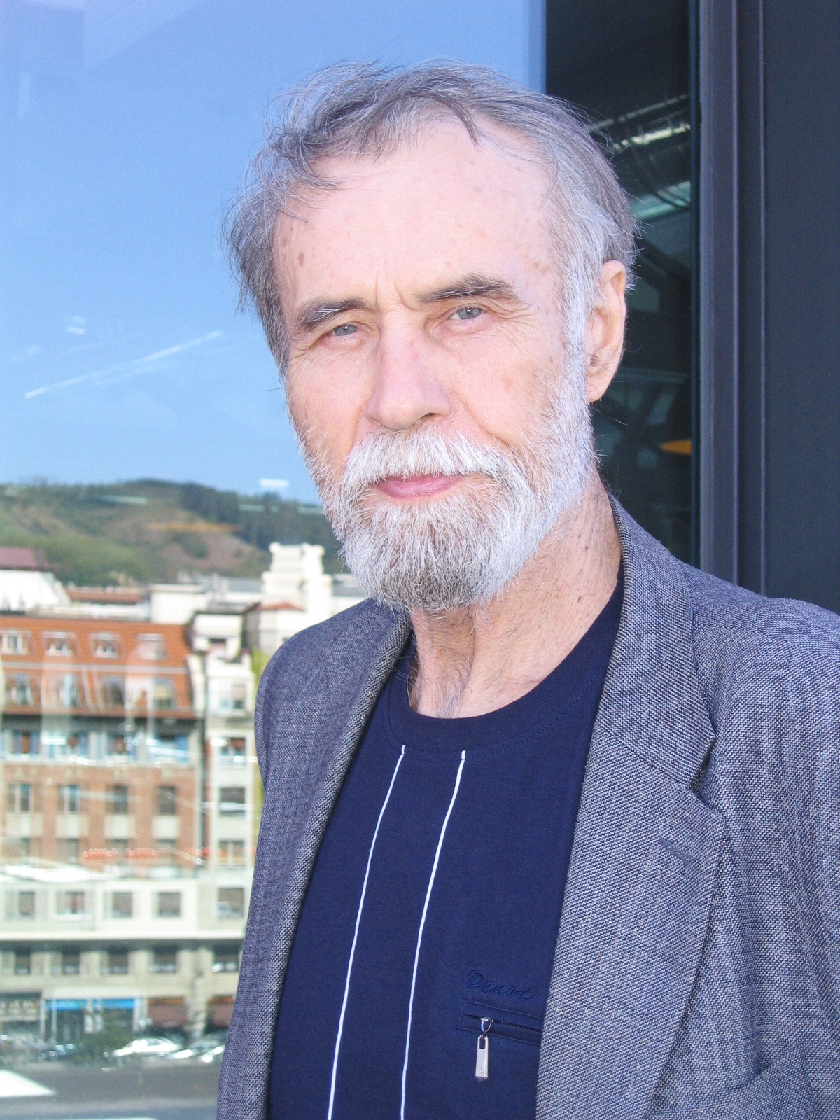 Russian writer Vladimir Makanin in Bilbao, during the IV Literaty Festival Gutun Zuria